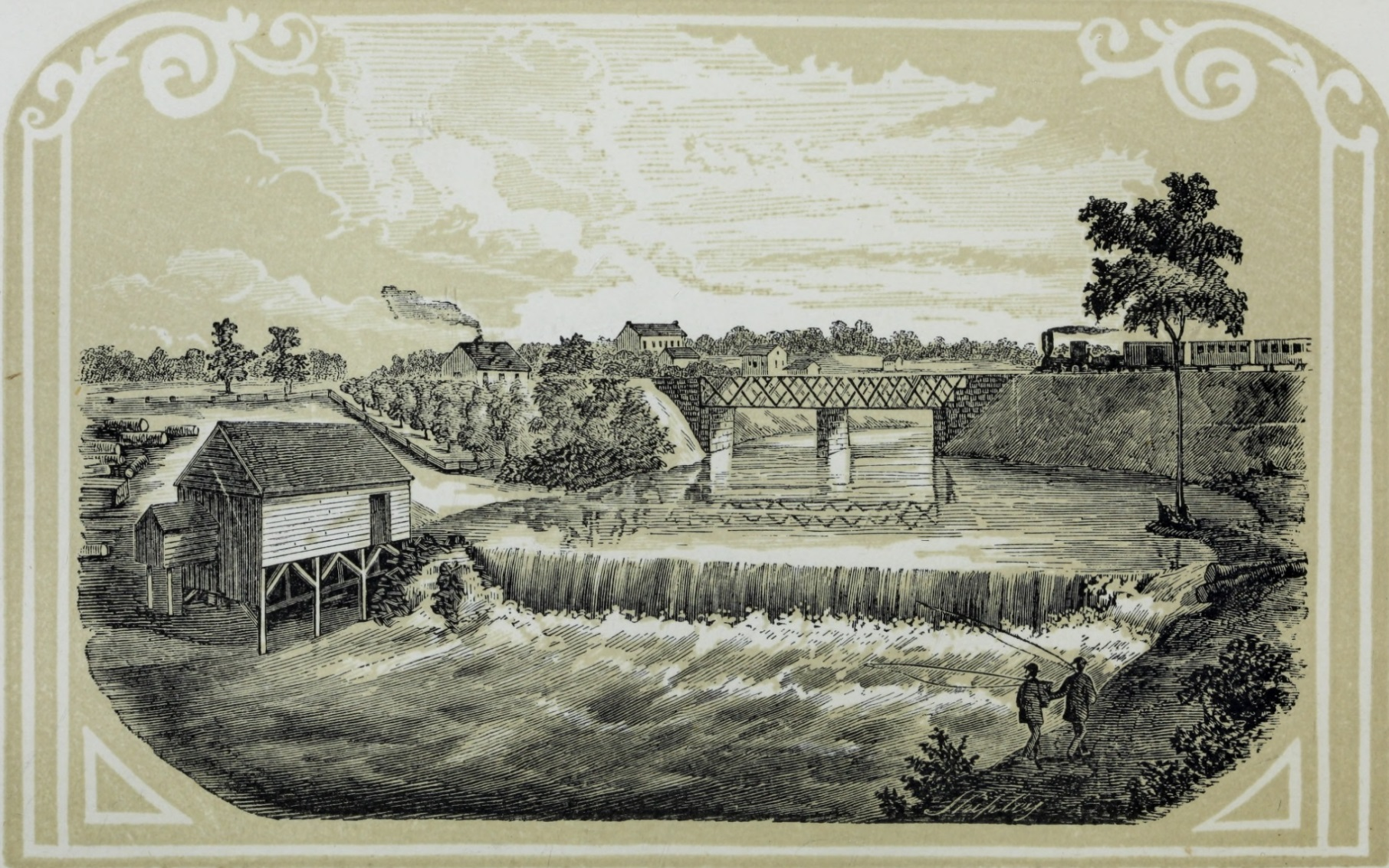 Engraving of a railroad bridge over the Black River near Grafton, Ohio, in the United States. This bridge was built by the Cleveland, Columbus and Cincinnati Railroad about 1851.